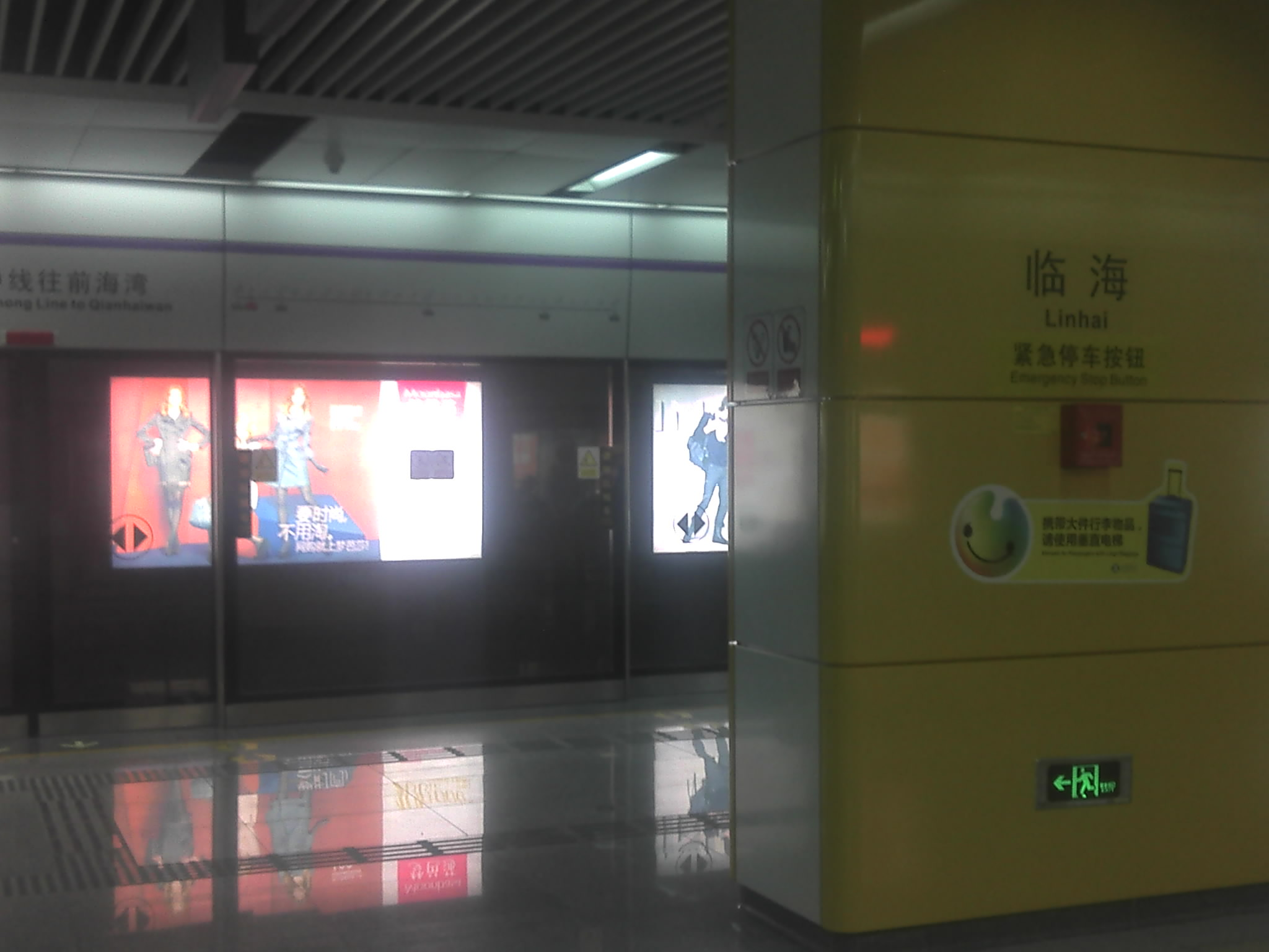 This photo was taken as Nov 19, 2011.